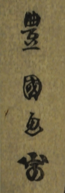 "Toyokuni ga" / "Iwa"